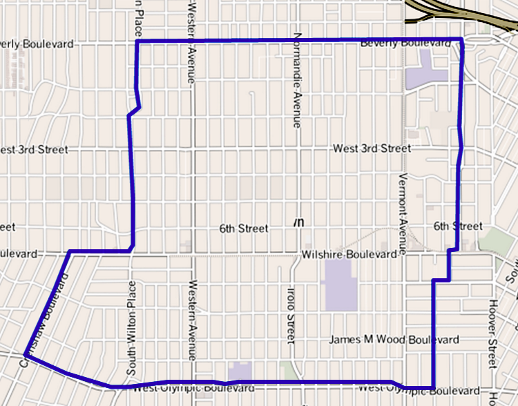 Map of Koreatown, California, as delineated by the Los Angeles Times Other information Boundary map as drawn by the Los Angeles Times on a CC-by-SA background. Note at bottom right of map on the L.A. Times website noted above says "CC-by-SA" (which gives permission to use the map). There is a link there to which explains the meaning thereof. The base map is credited to The Times spells all this out at